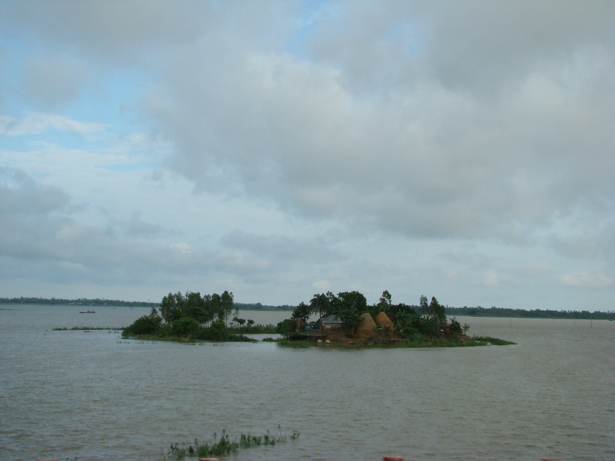 Chalan Beel Natore Bangladesh